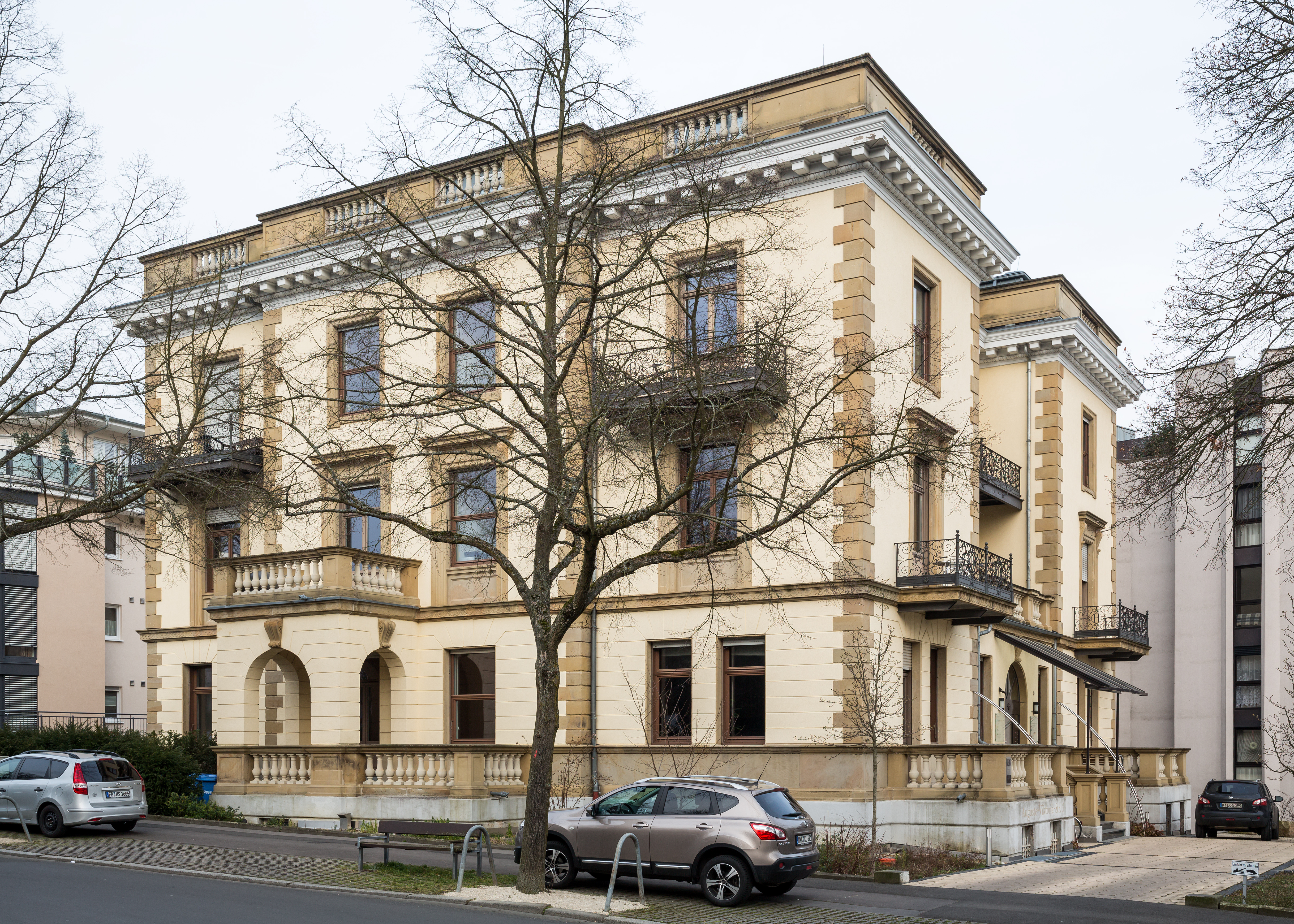 Bad Nauheim: Auguste-Viktoria-Straße (Auguste-Viktoria Street) 3 as seen from the southwest